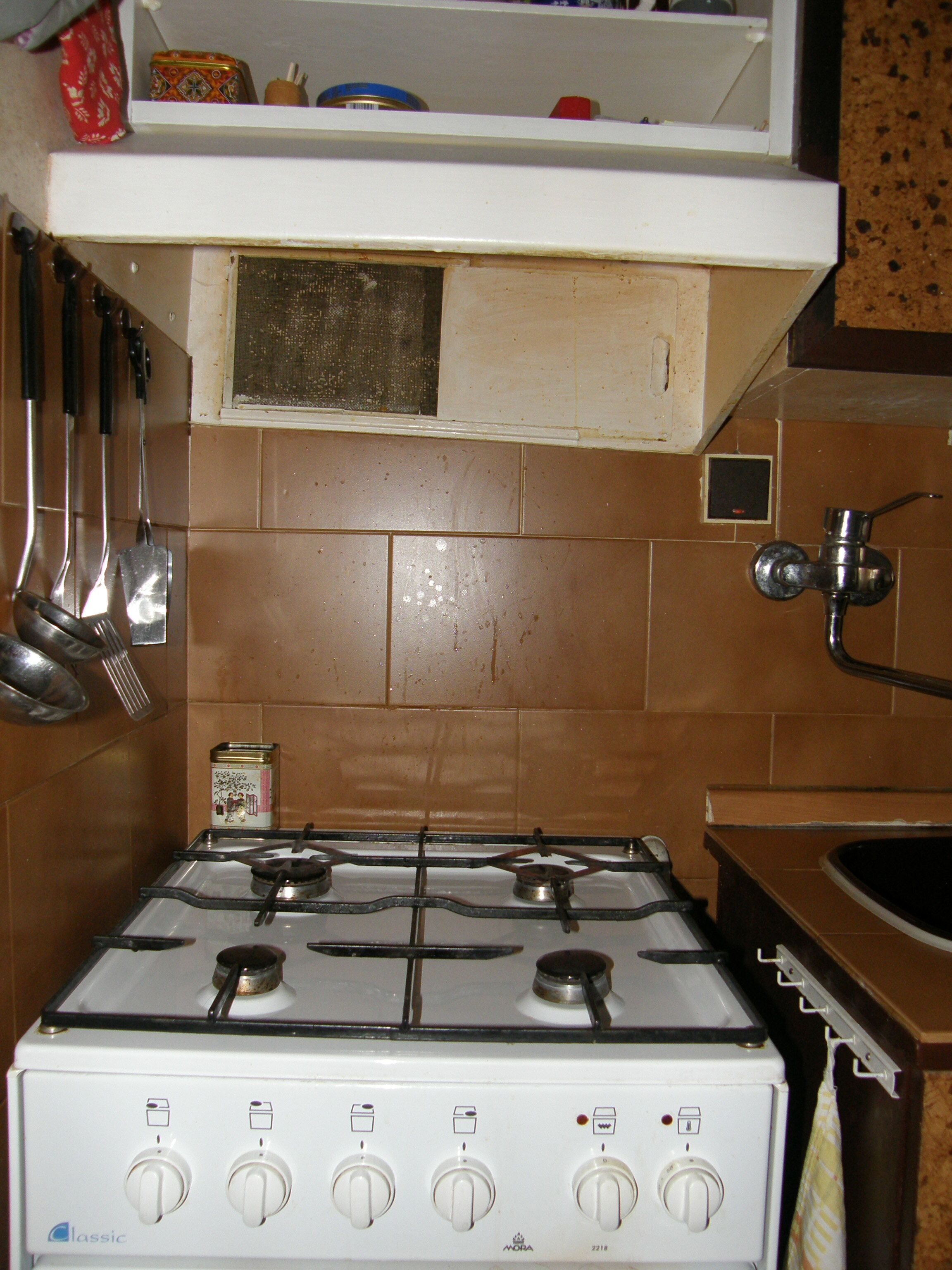 kitchen hood